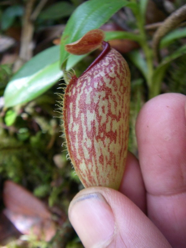 Nepenthes aristolochioides